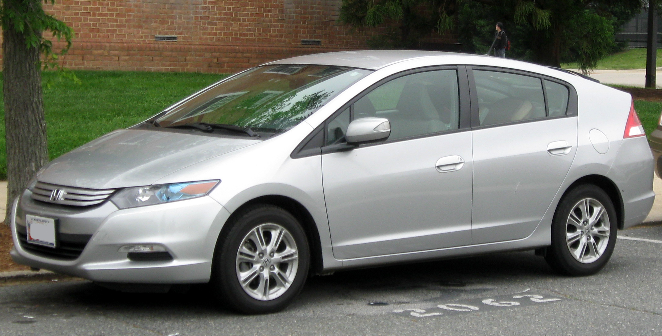 2010-2011 Honda Insight photographed in College Park, Maryland, USA.